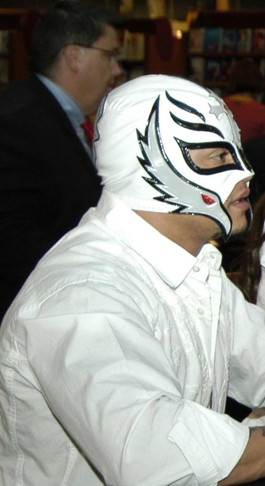 Cropped version of the original image (Rey Mysterio and Joy Giovanni). World Wrestling Entertainment (WWE) superstar Rey Mysterio.